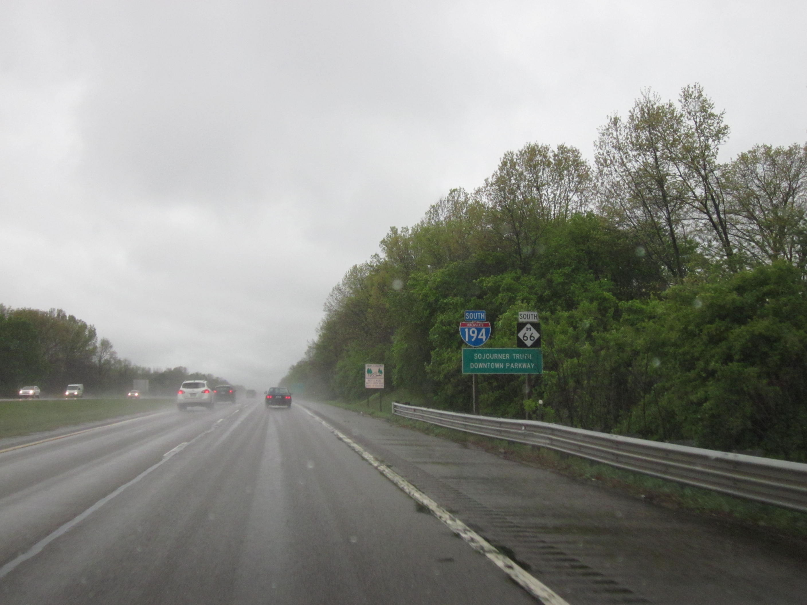 Interstate 194 in Battle Creek, Michigan, the "Sojourner Truth Downtown Memorial Parkway"